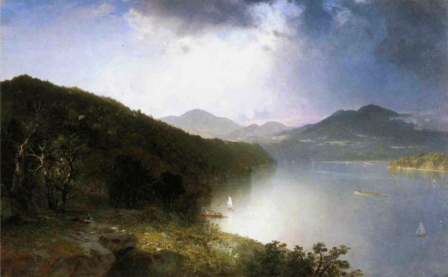 The Catskill Mountains rise in the distance.